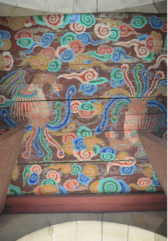 Changuimun Gate, also known as Northwest Gate or Buksomun, Seoul, South Korea. Photographed June 6, 2012. Photo shows chicken design on rafters under gate.